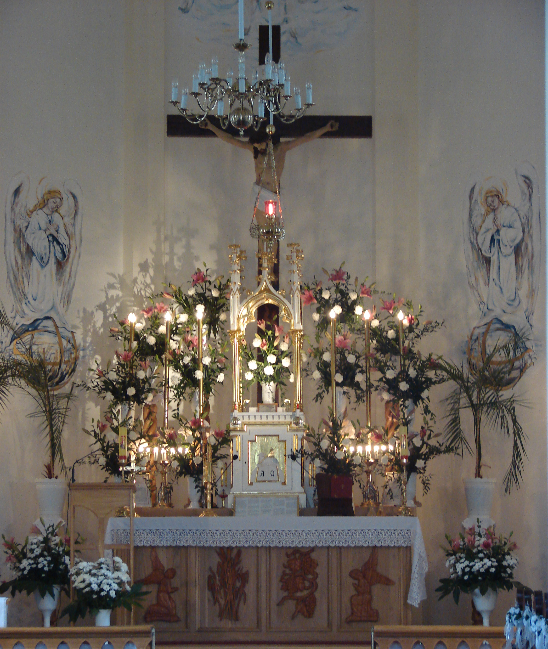 Old Catholic Mariavite Church in Minsk Mazowiecki